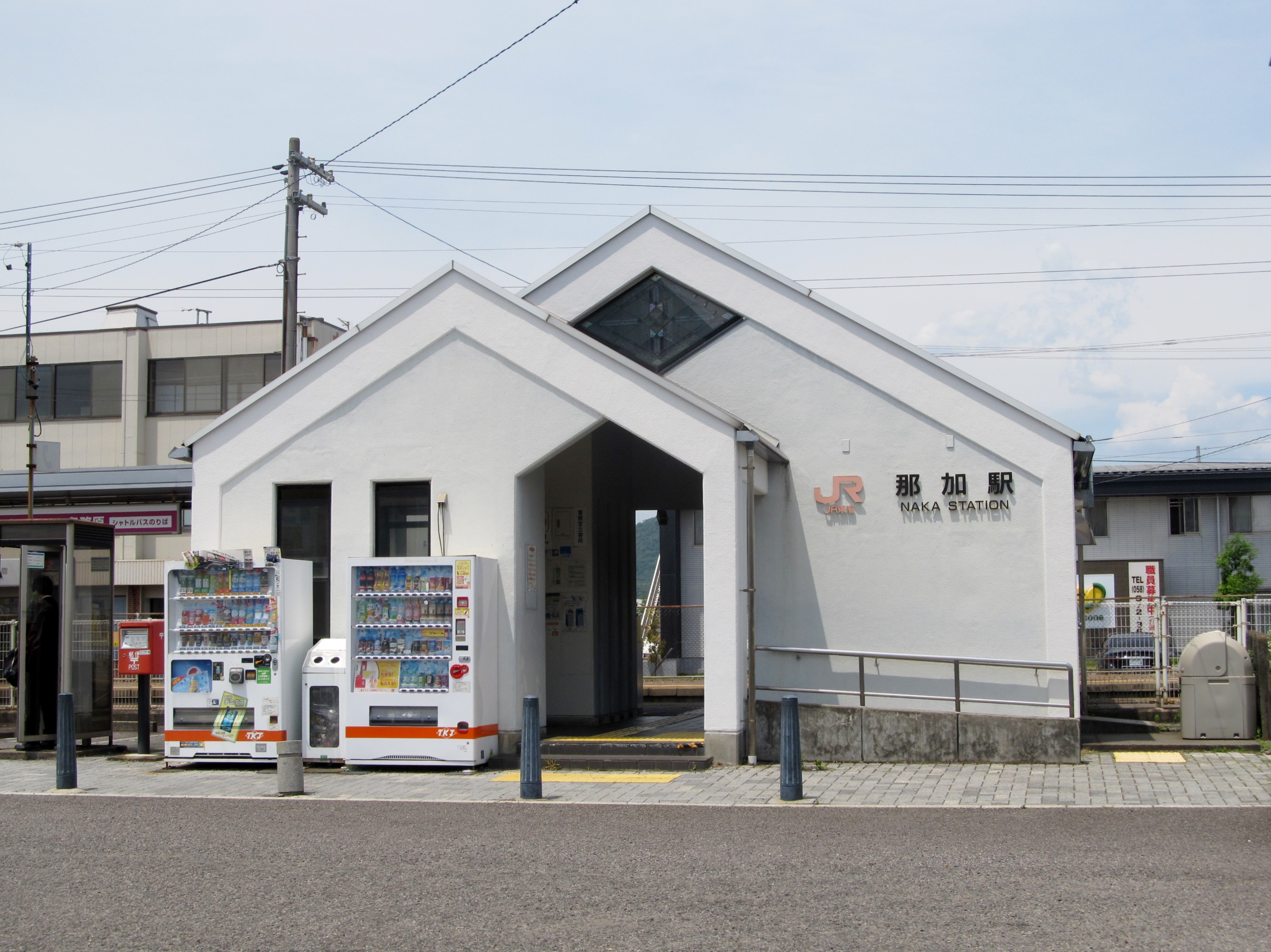 Central Japan Railway Takayama Line Naka Station Building